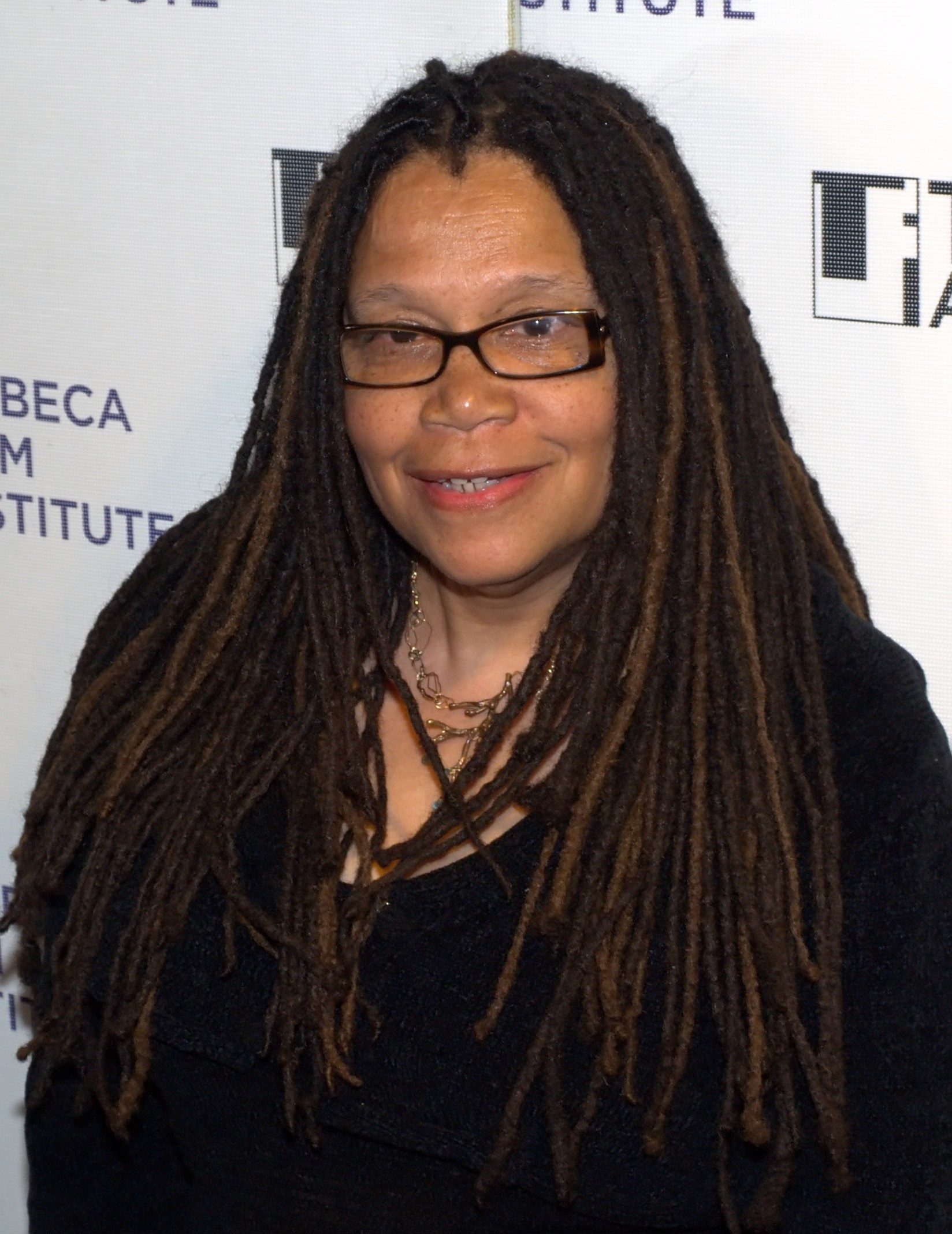 American documentary filmmaker Linda Goode Bryant at the 2010 Tribeca Film Festival